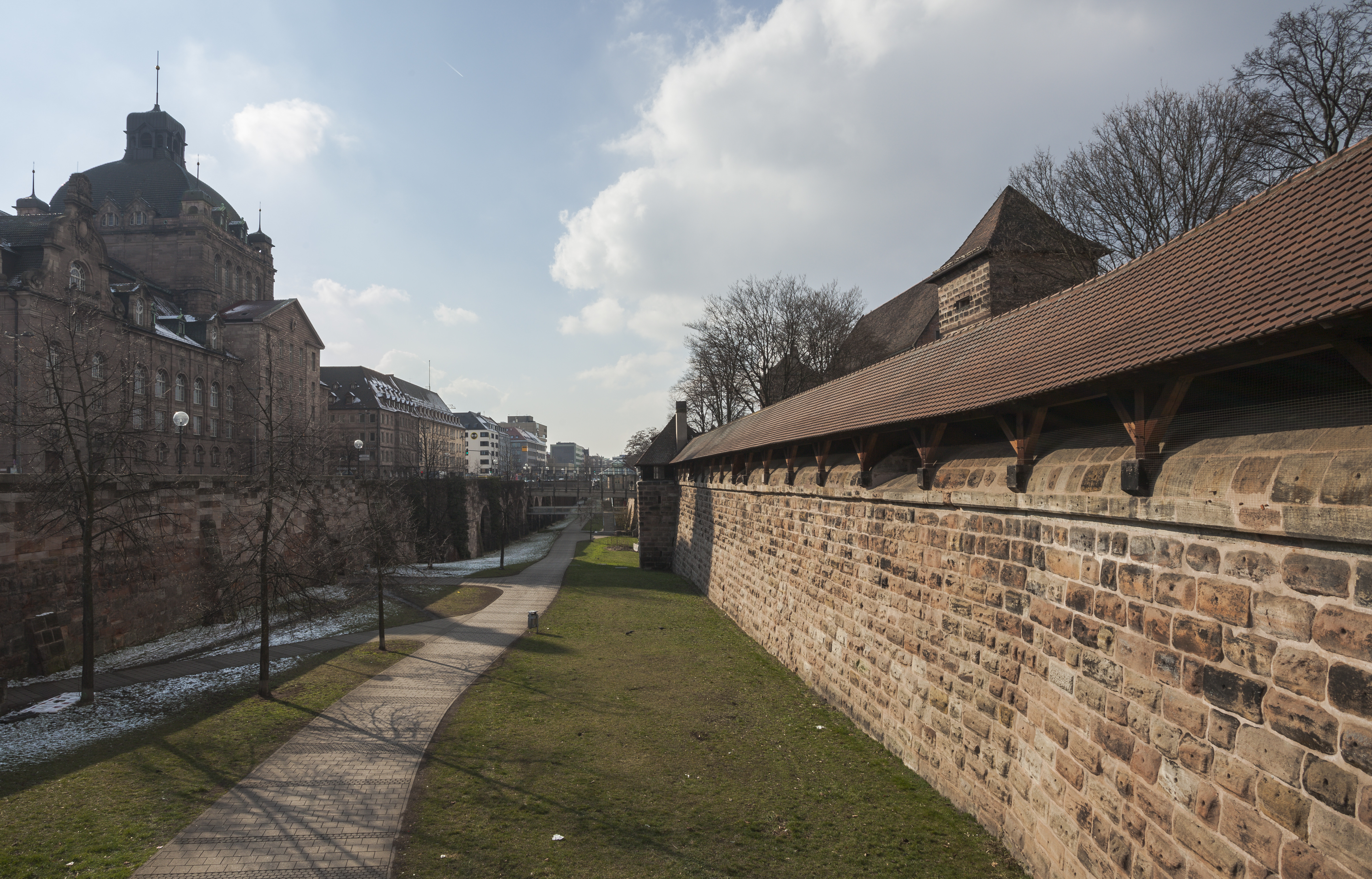 City walls, Nuremberg, Germany